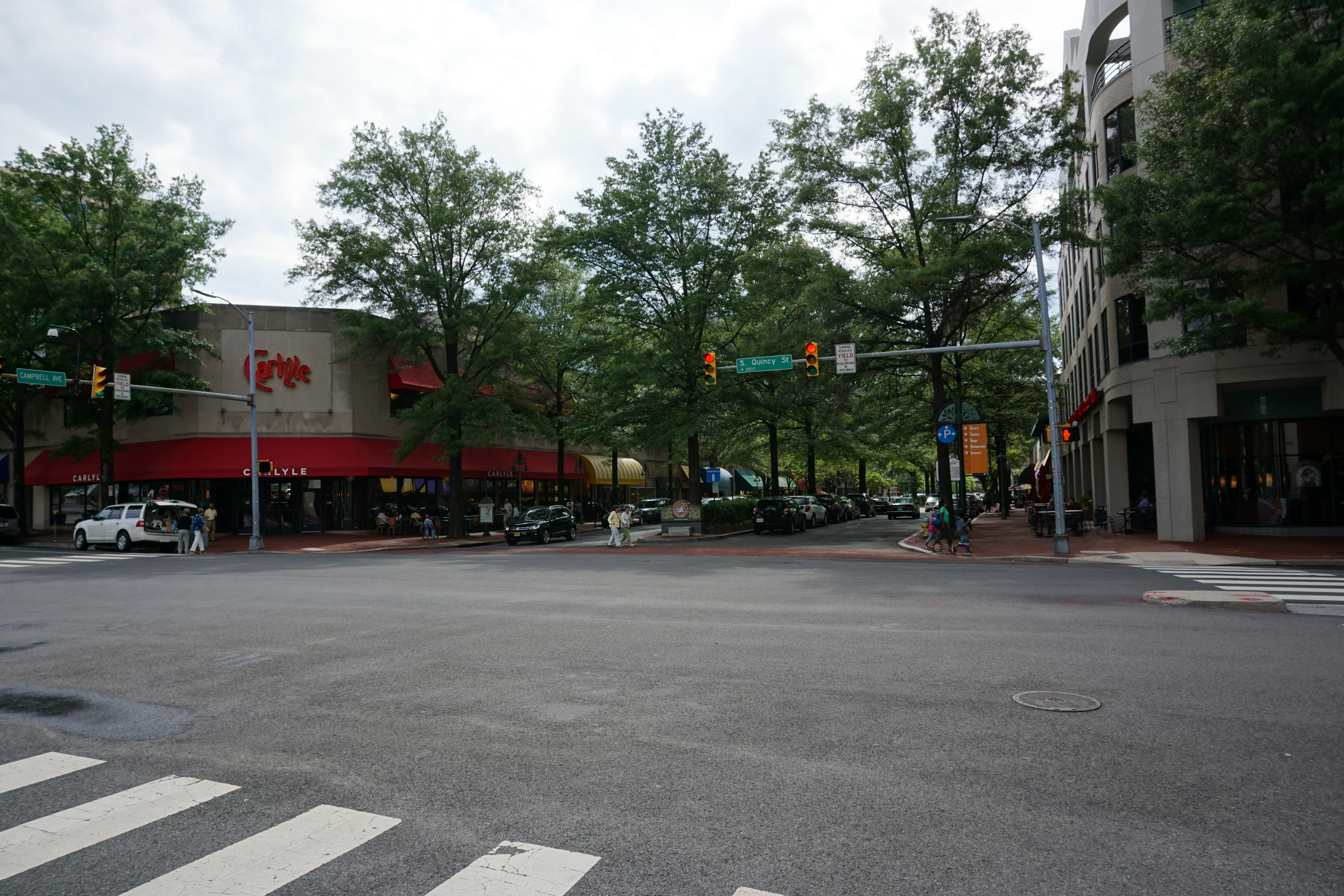 Restaurants in the center of The Village at Shirlington. Located at the intersection of Campbell Avenue and South Quincy Street in Arlington, Virginia.